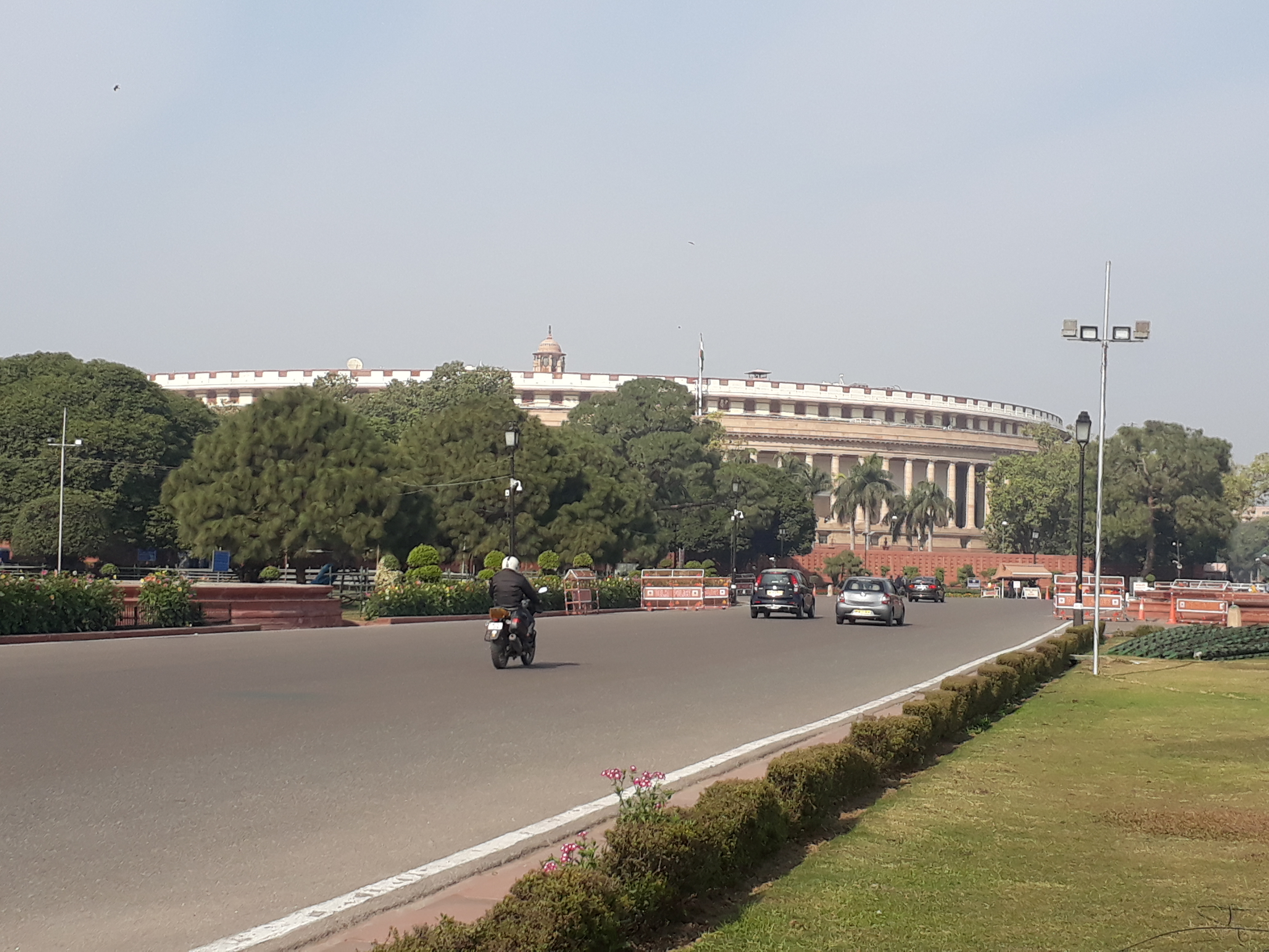 Parliament of India or Sansad Bhawan in New Delhi